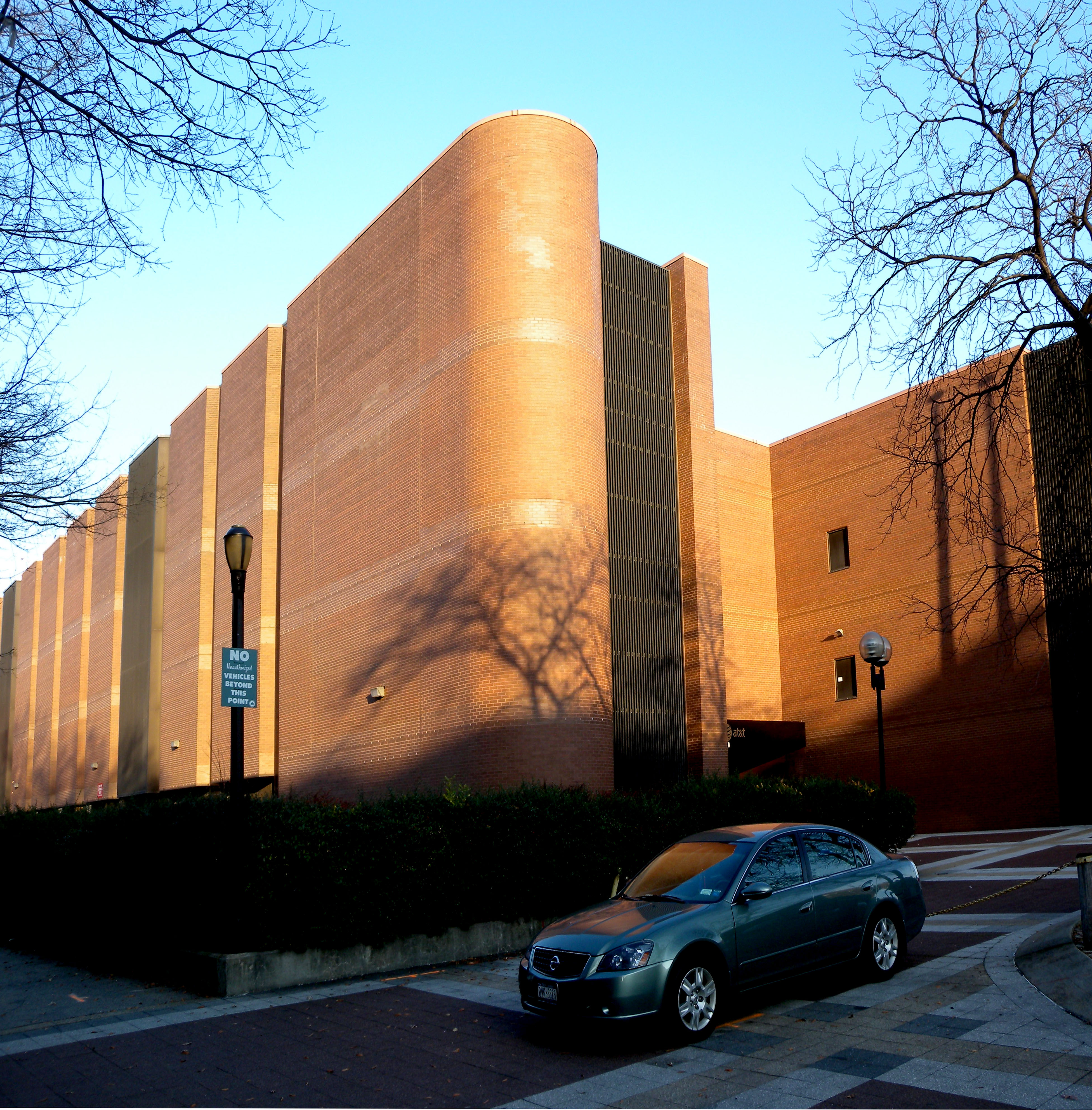 Looking northeast at Rego Park switching office of AT&T on a sunny late afternoon.